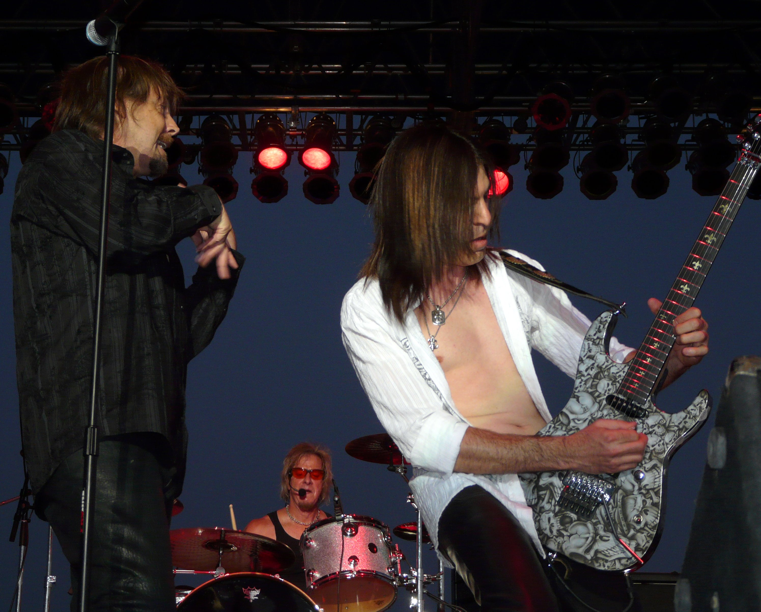 DOKKEN Dokken at the Red River Valley Fair in West Fargo, North Dakota on June 21, 2008 L to R: Don Dokken, Jeff Martin (touring member only), Jon Levin PHOTO BY MATT BECKER